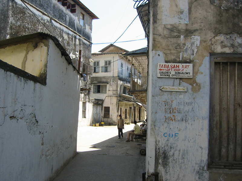 Alley in Stone Town, Zanzibar.